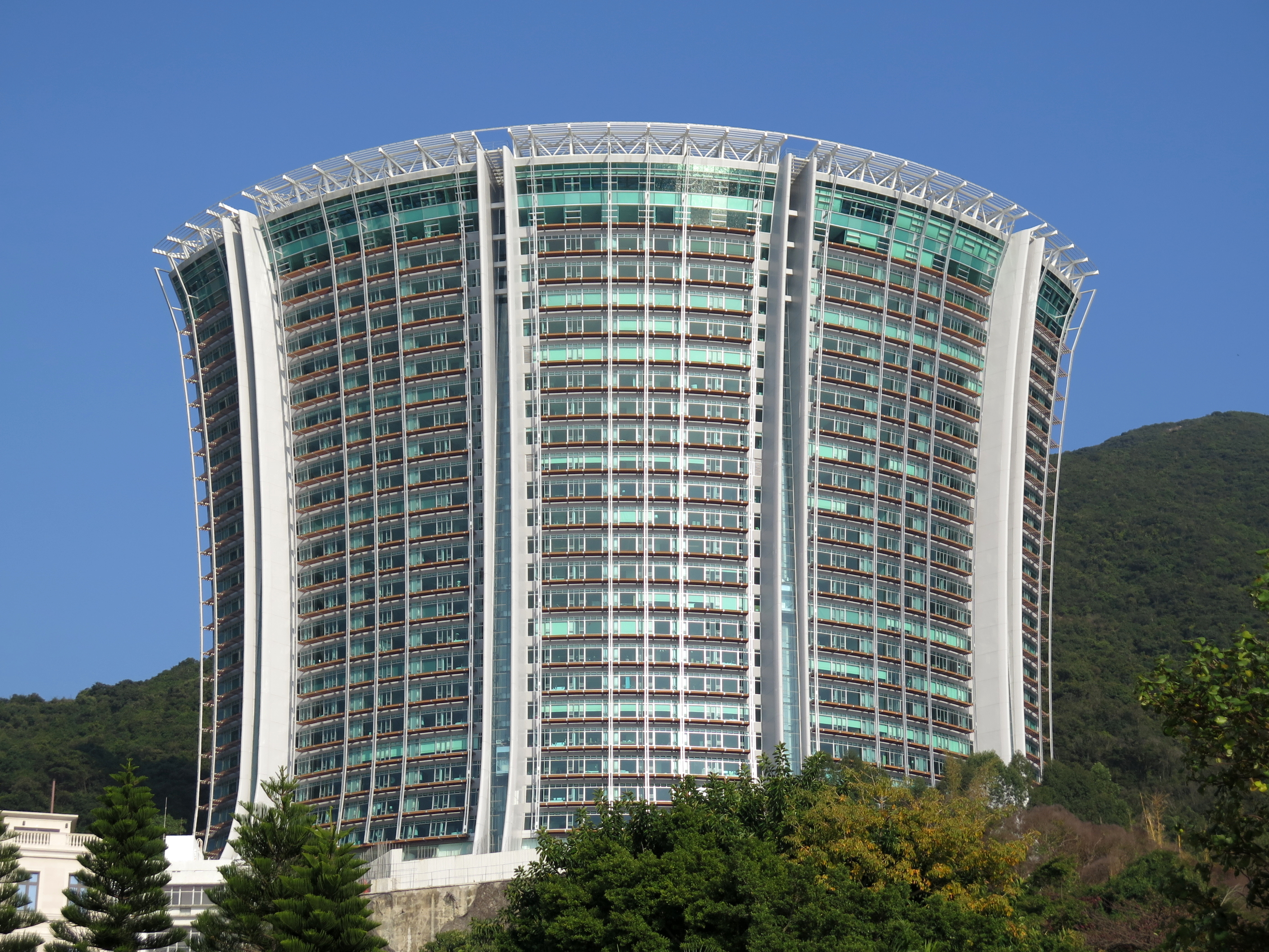 The Lily